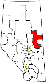 Map showing the location of Lac La Biche-St. Paul in Alberta